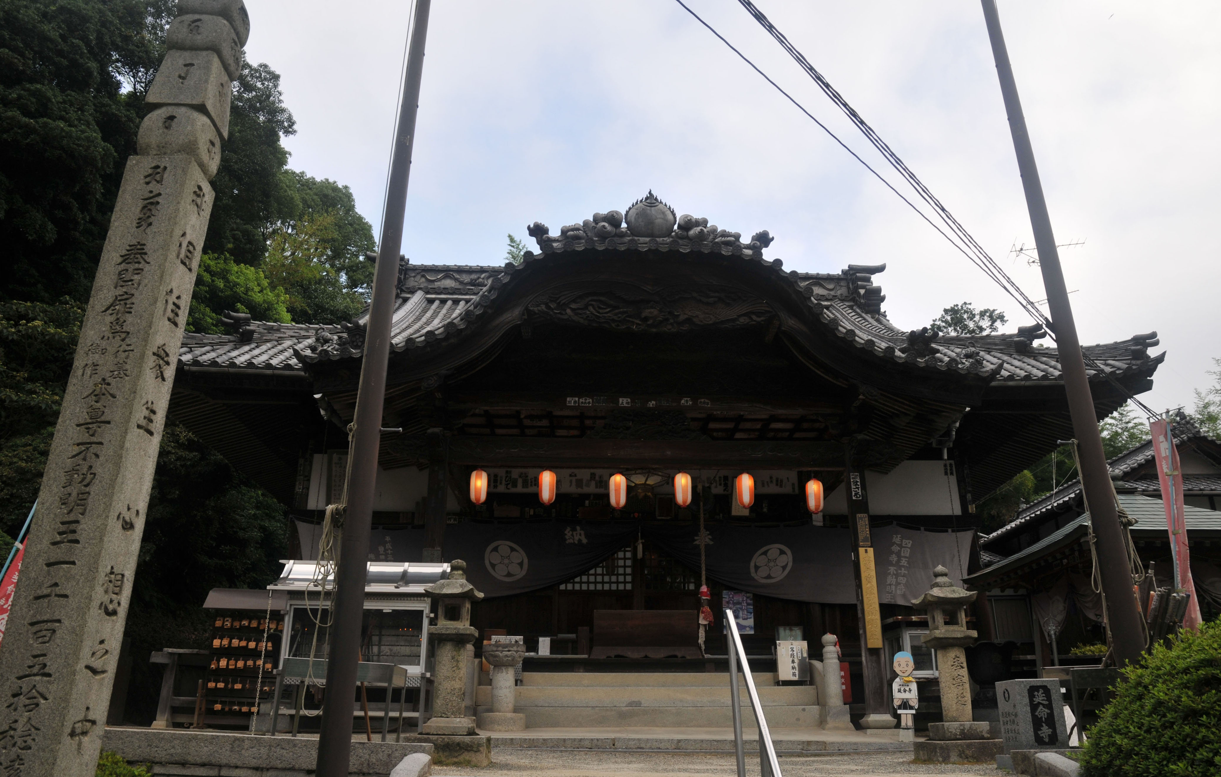 Main temple, Enmei-ji